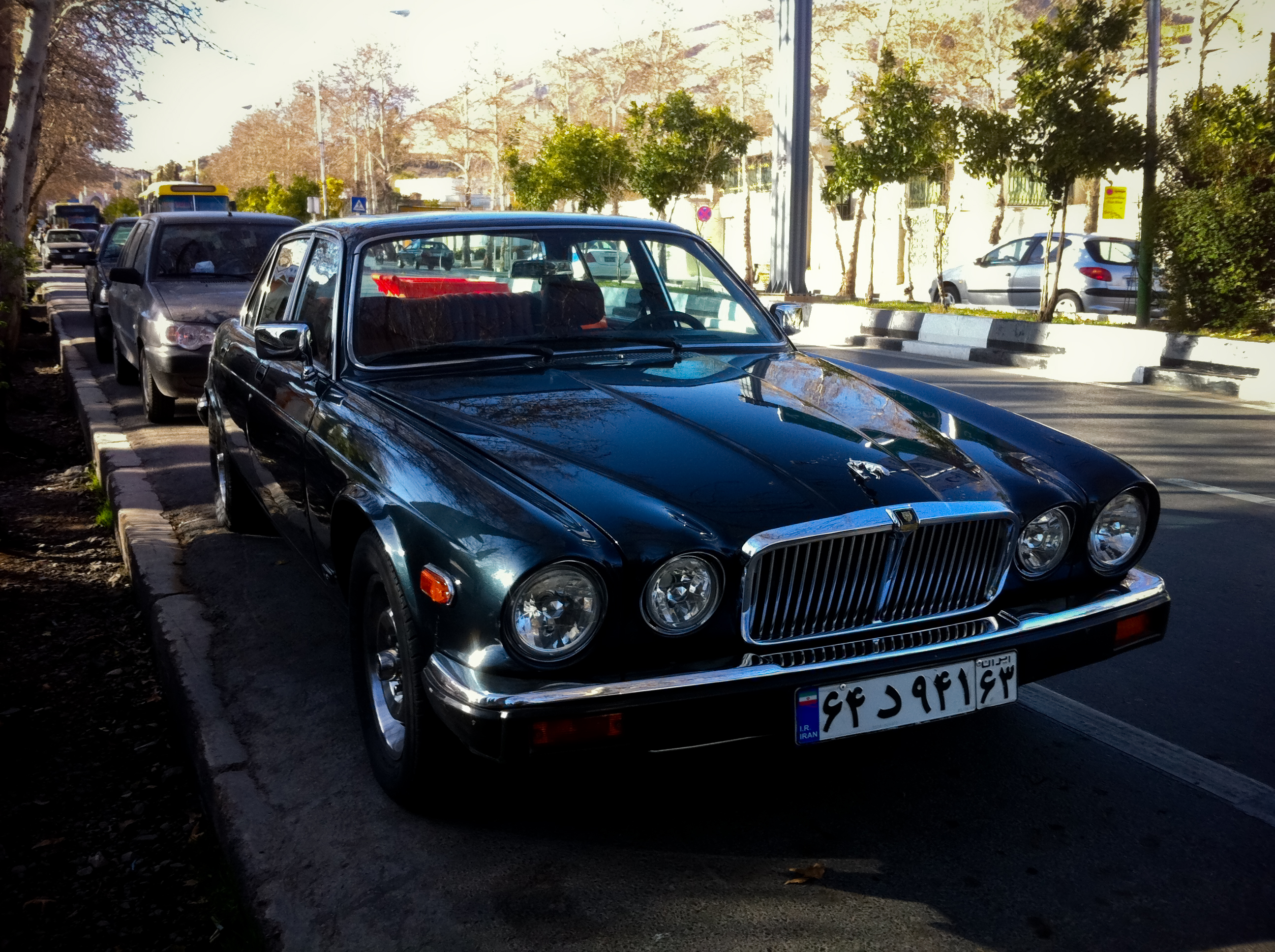 A Jaguar XJ6 parked in Eram Street, Shiraz, Iran alongside Eram Garden.